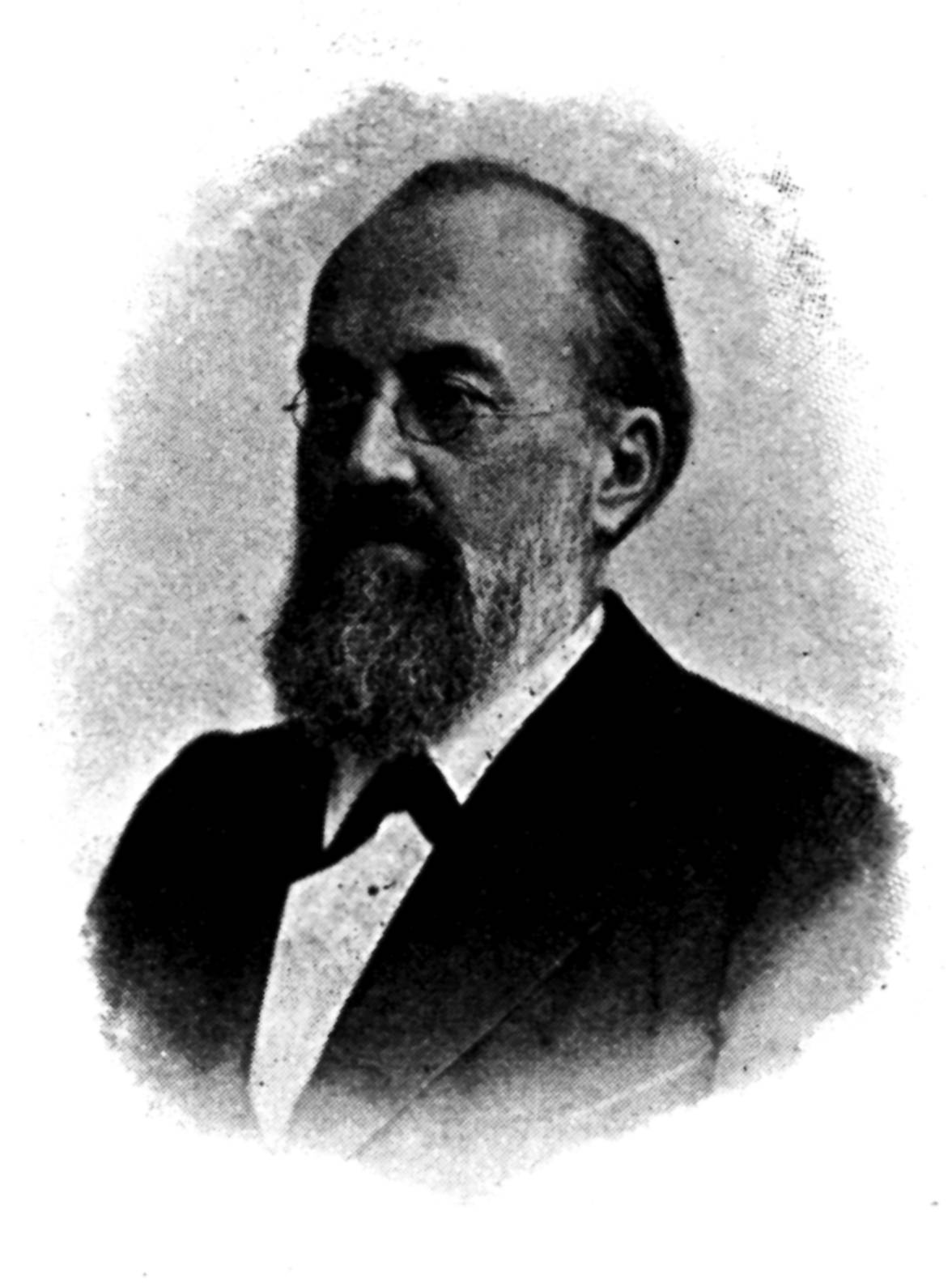 Ewald Hering (1834-1918), german physiologist